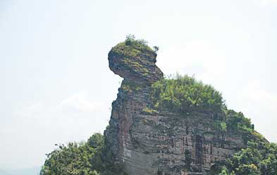 Kitten Mountain, Guangxi Zhuang, People's Republic of China